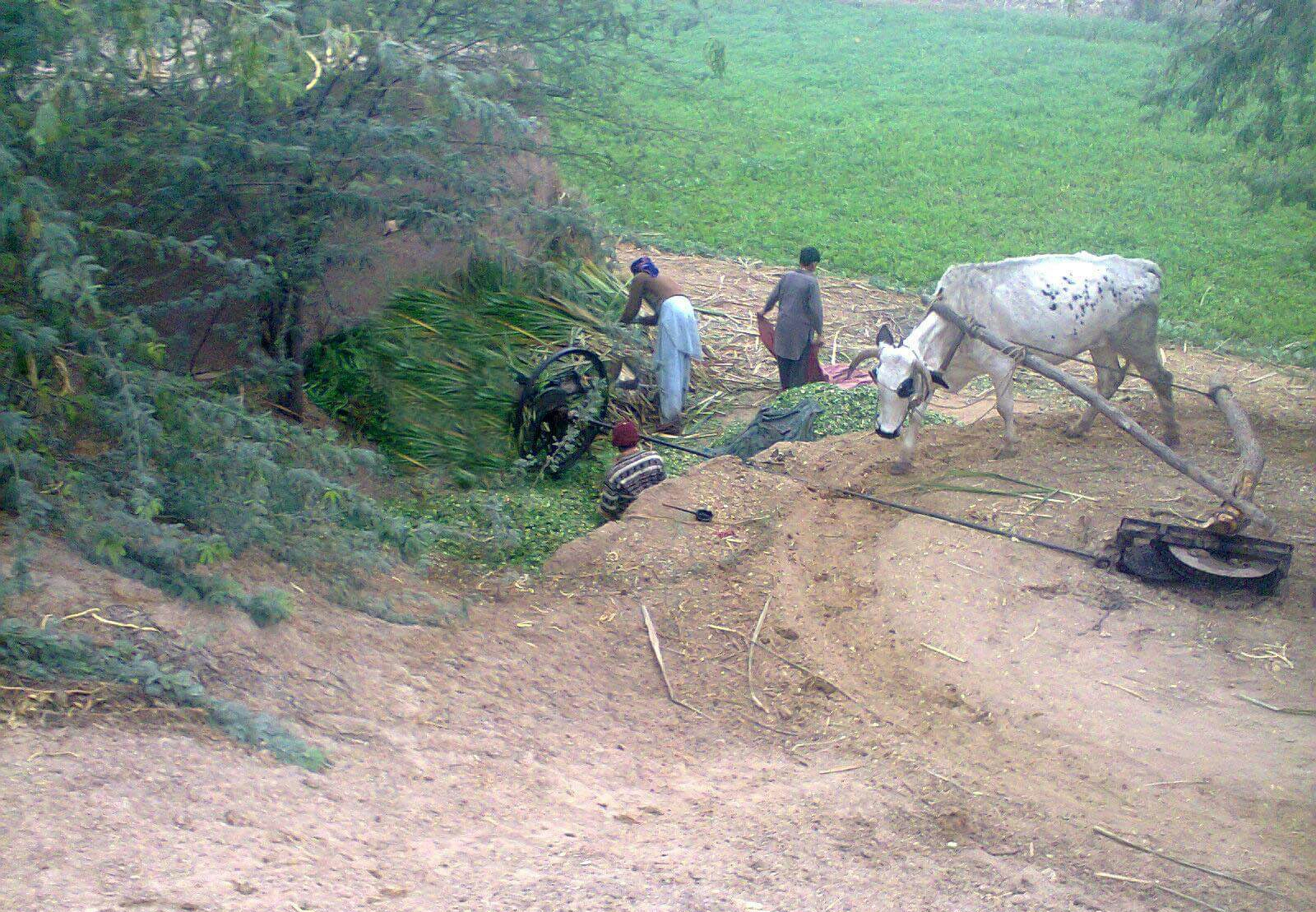 I also Uploaded this Photo on Botala Facebook Page & on website